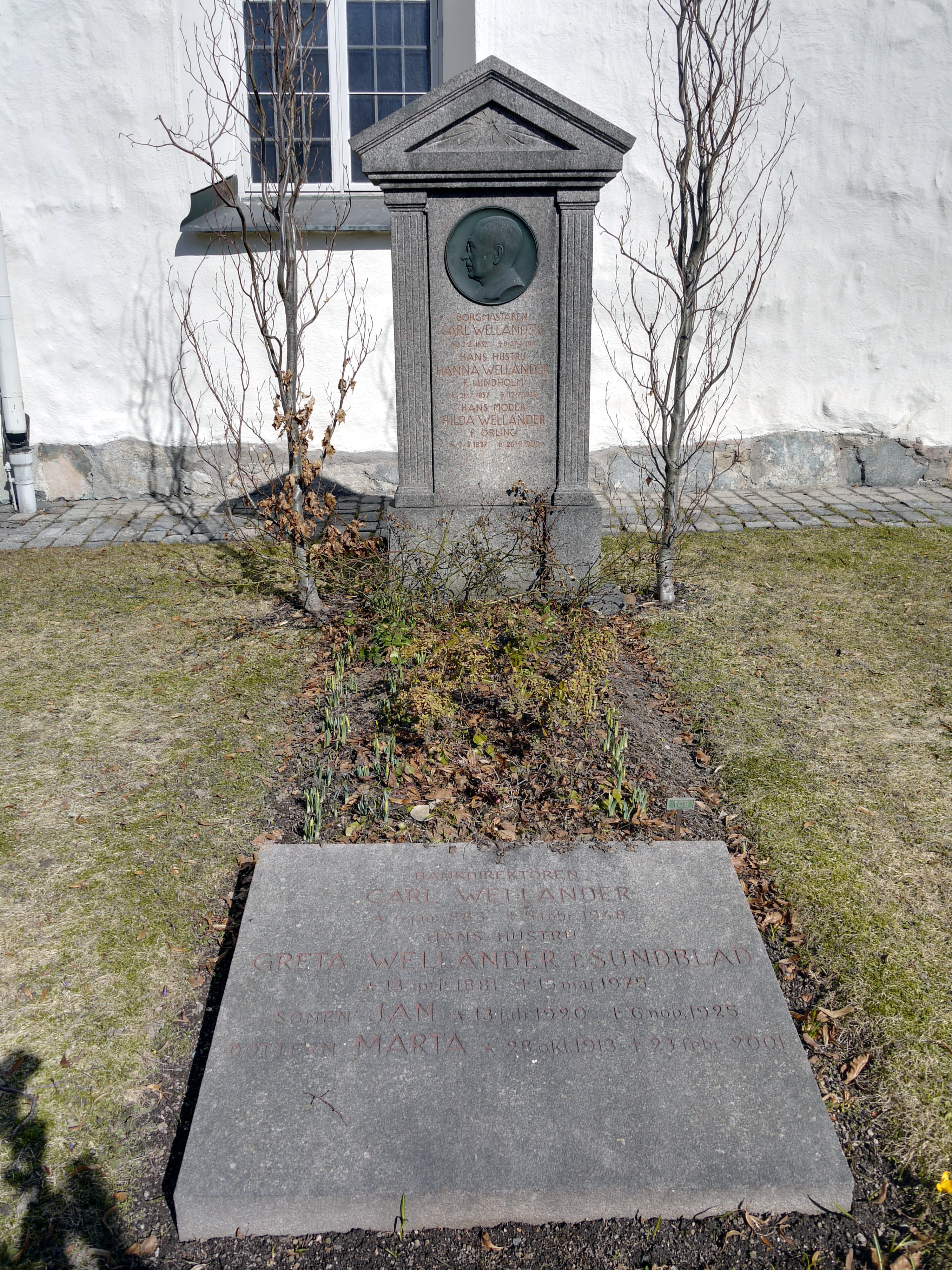 Photographs taken on morning of the 4th of april 2010 in Nyköping in Sweden